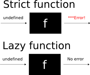 An image showing how to tell whether a function is strict or not